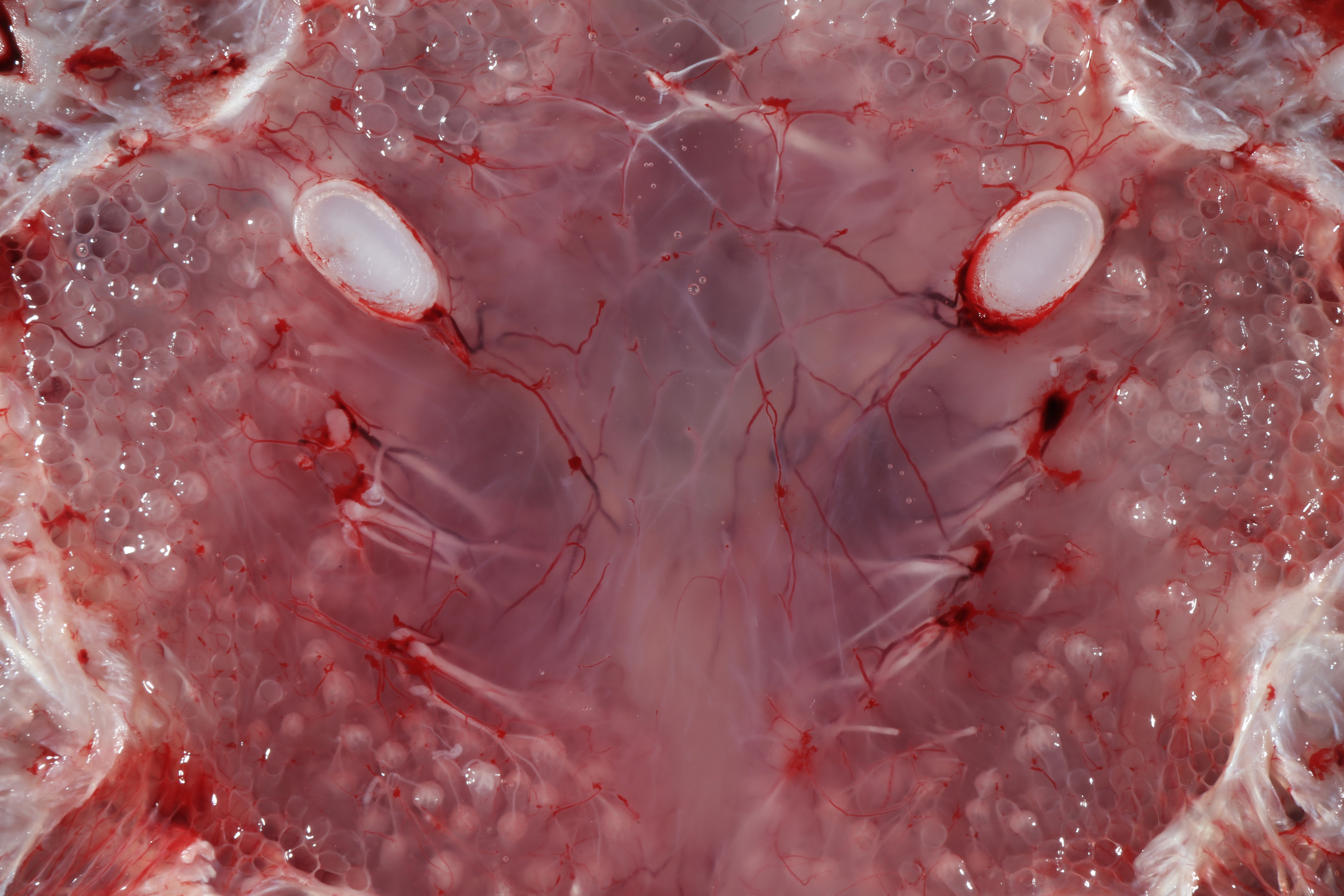 Transversal section of the anterior part of the head of a Common thresher (Alopias vulpinus) from the Mediterranean Sea, showing the Ampullae of Lorenzini sustained in a gelli-like tissue. A network of nerve fibers connecting to these ampullae is visible